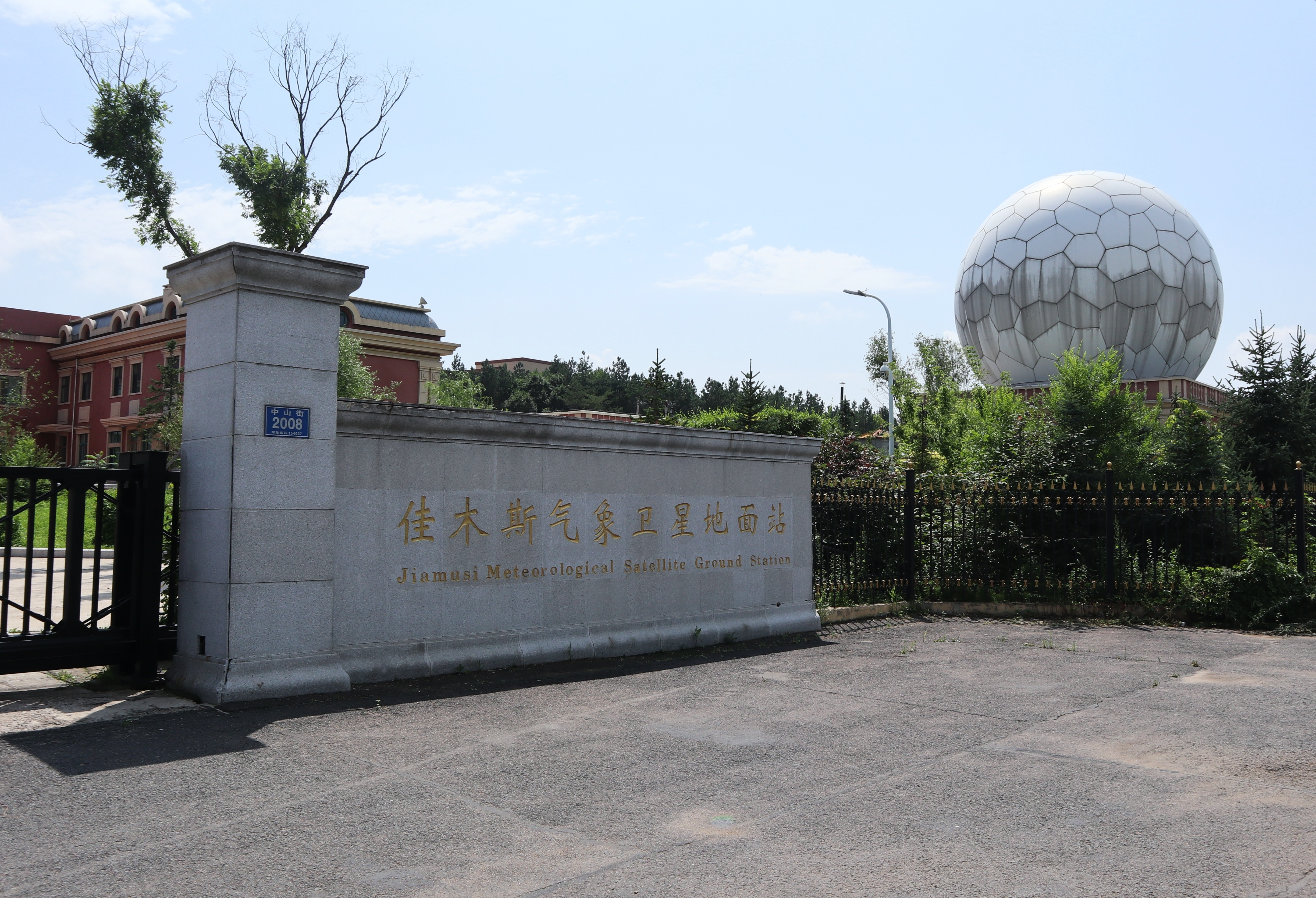 Jiamusi Meteorological Satellite Ground Station is one of the four national meteorological satellite ground stations in China.